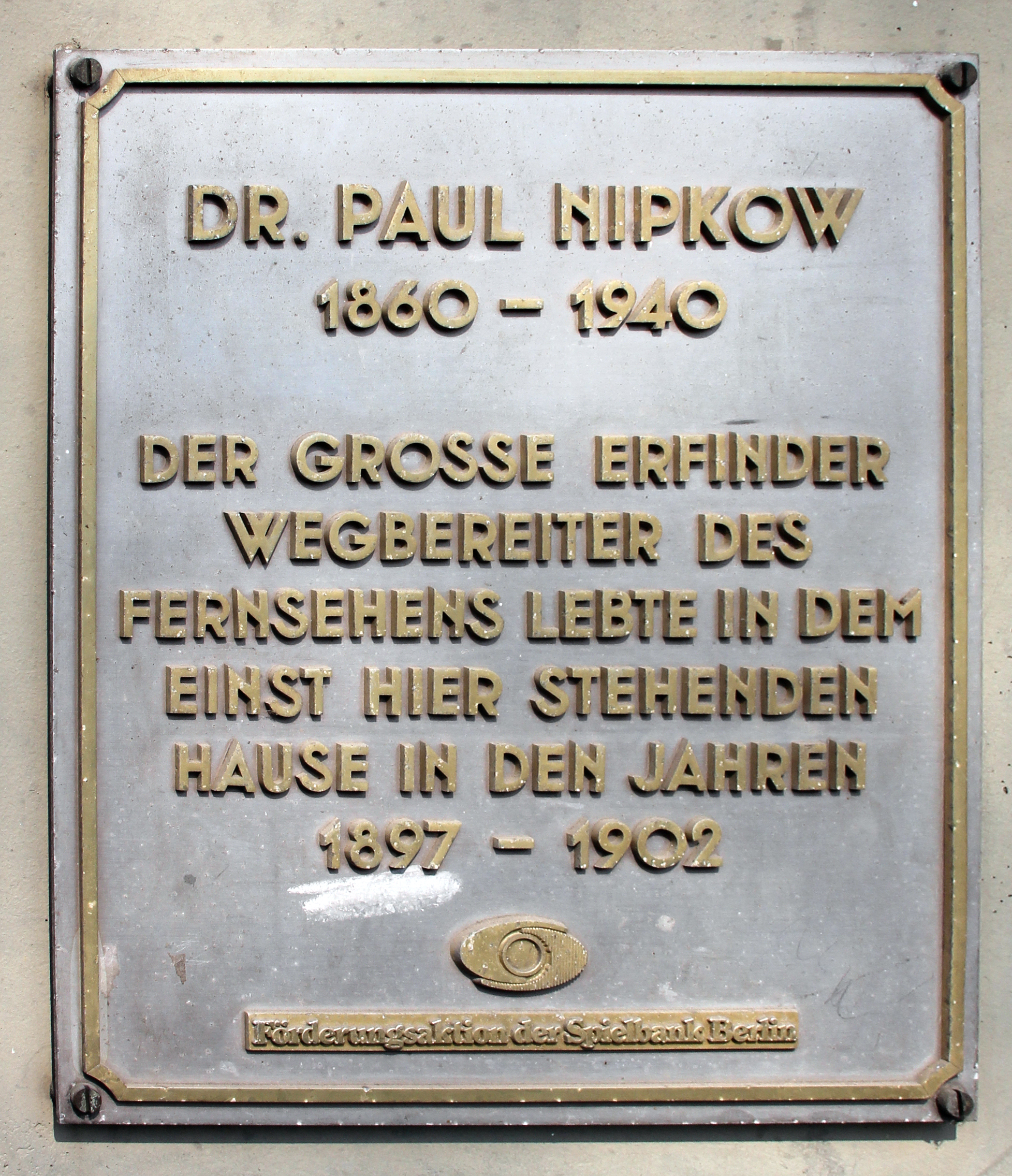 Memorial plaque, Paul Nipkow, Uferstraße 2, Berlin-Gesundbrunnen, Germany